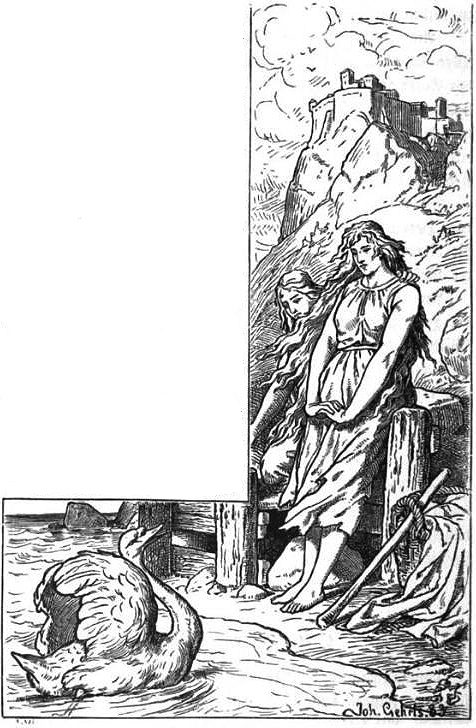 "Kudrun am Seestrande" (1901) by Johannes Gehrts.